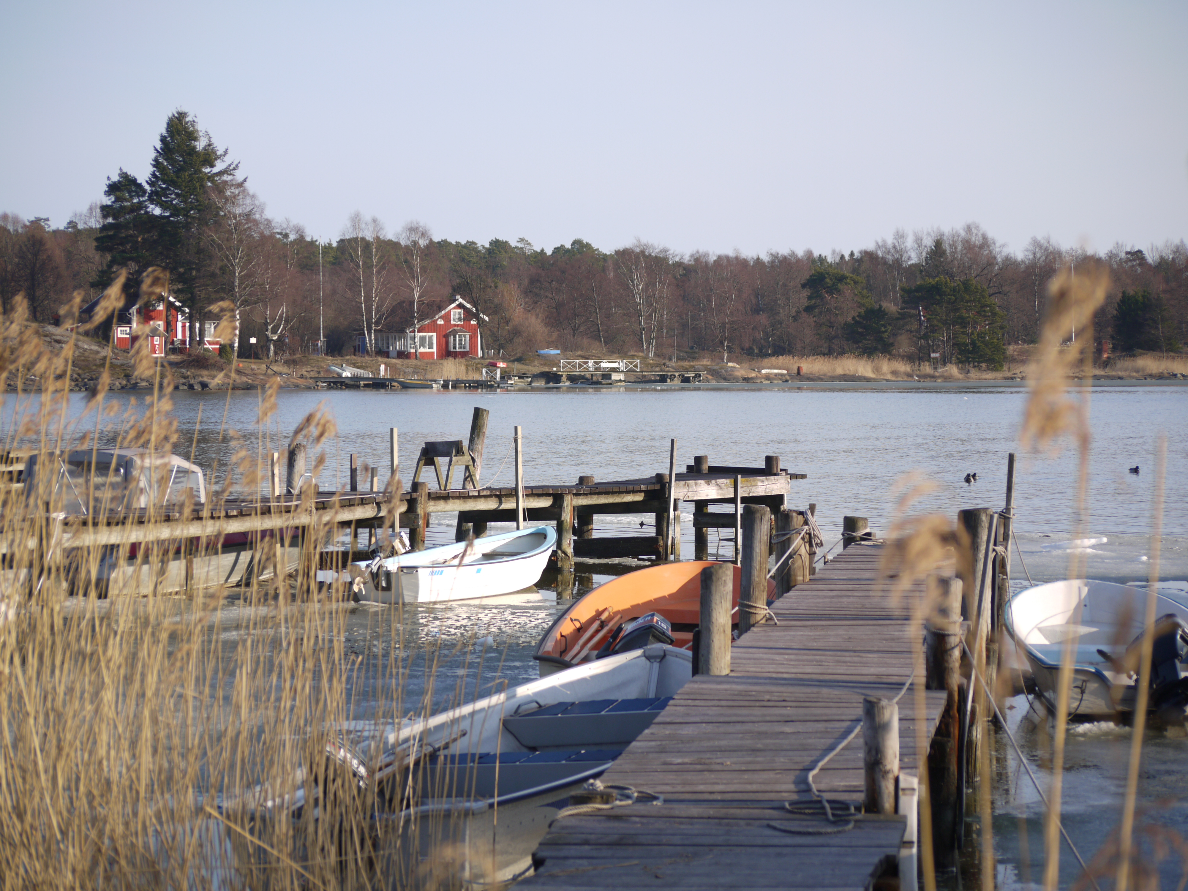 Photographs taken in Oxelösund in Sweden